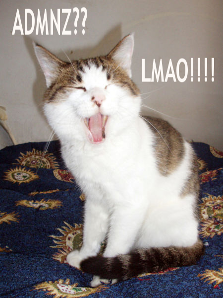 Another lolcat for Category:Rouge admins and anywhere else.